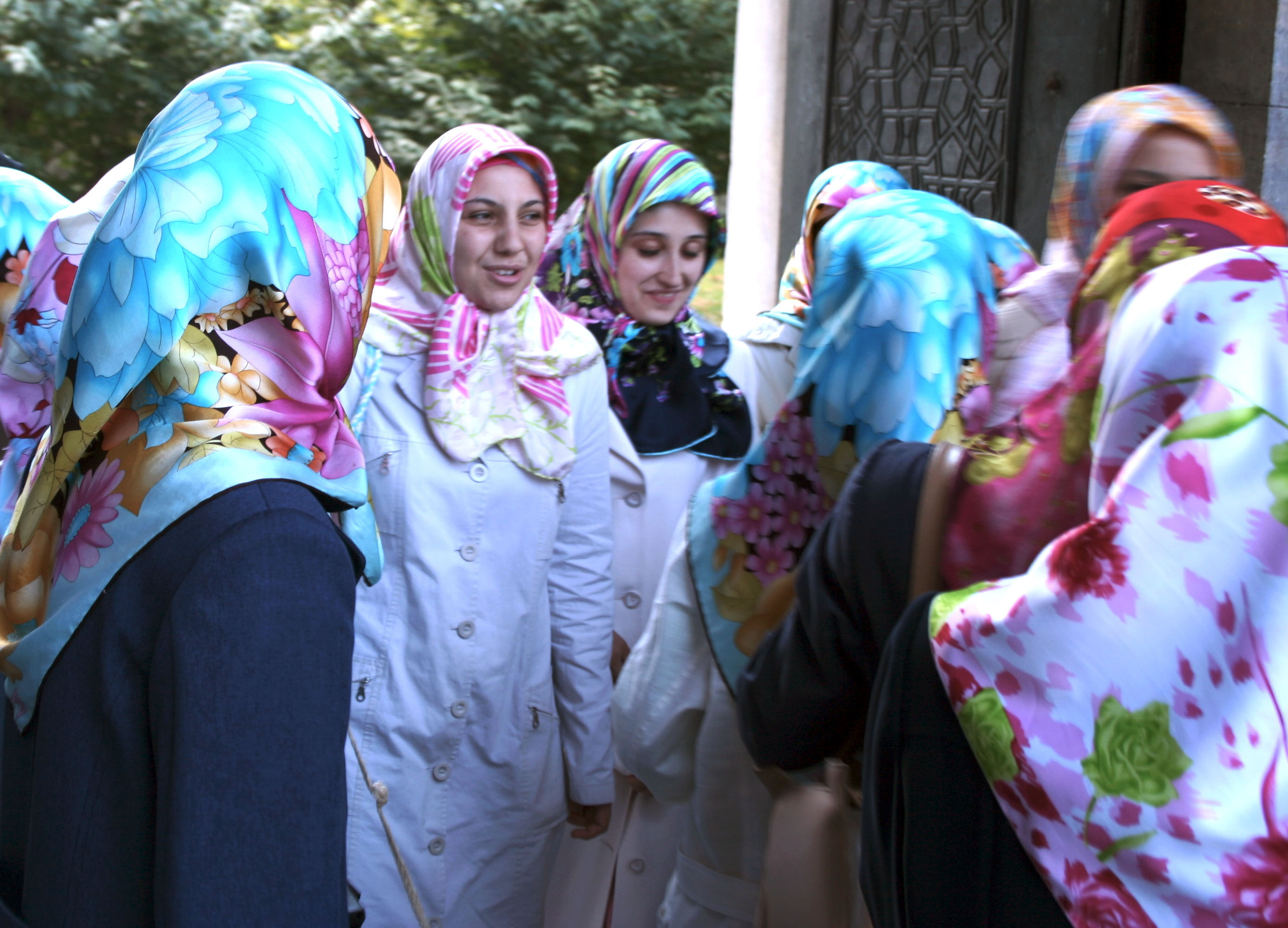 A group of Turkish women, wearing different colored headscarves.